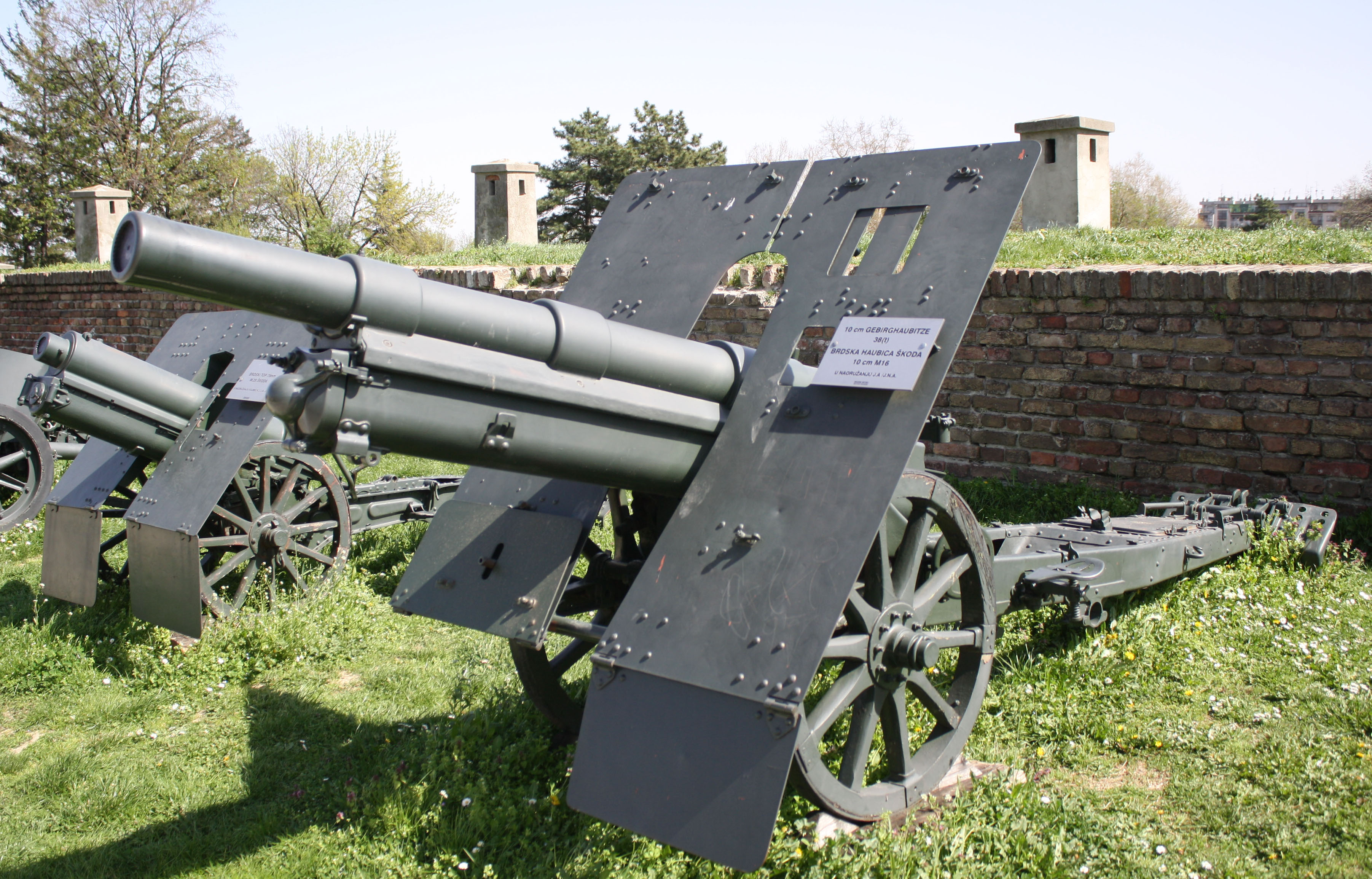 The Škoda 10cm Gebirgskanone M.16, part of Belgrade Military Museum outer exhibition at Kalemegdan fortres.